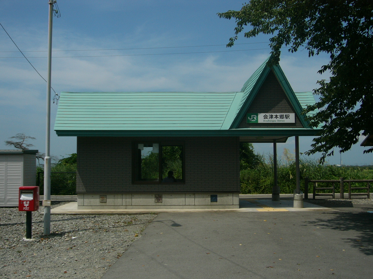 Aizu-Hongo Station